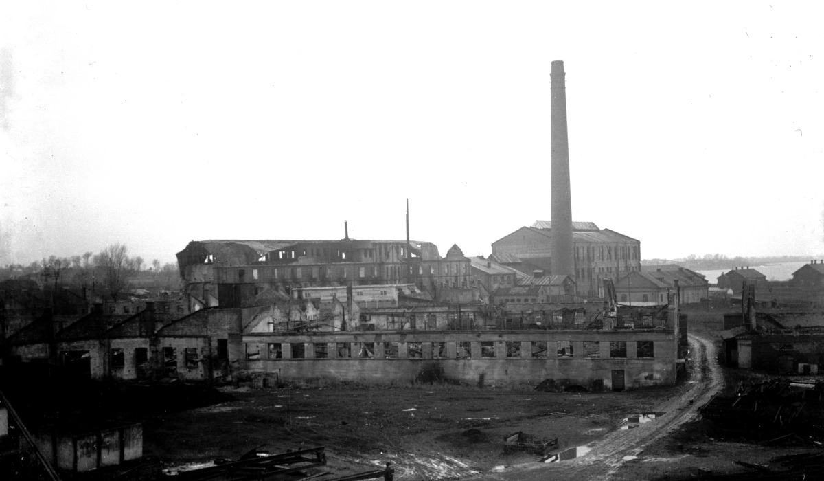 Frenkelis tannery in Šiauliai, destroyed in WWII, 1945.